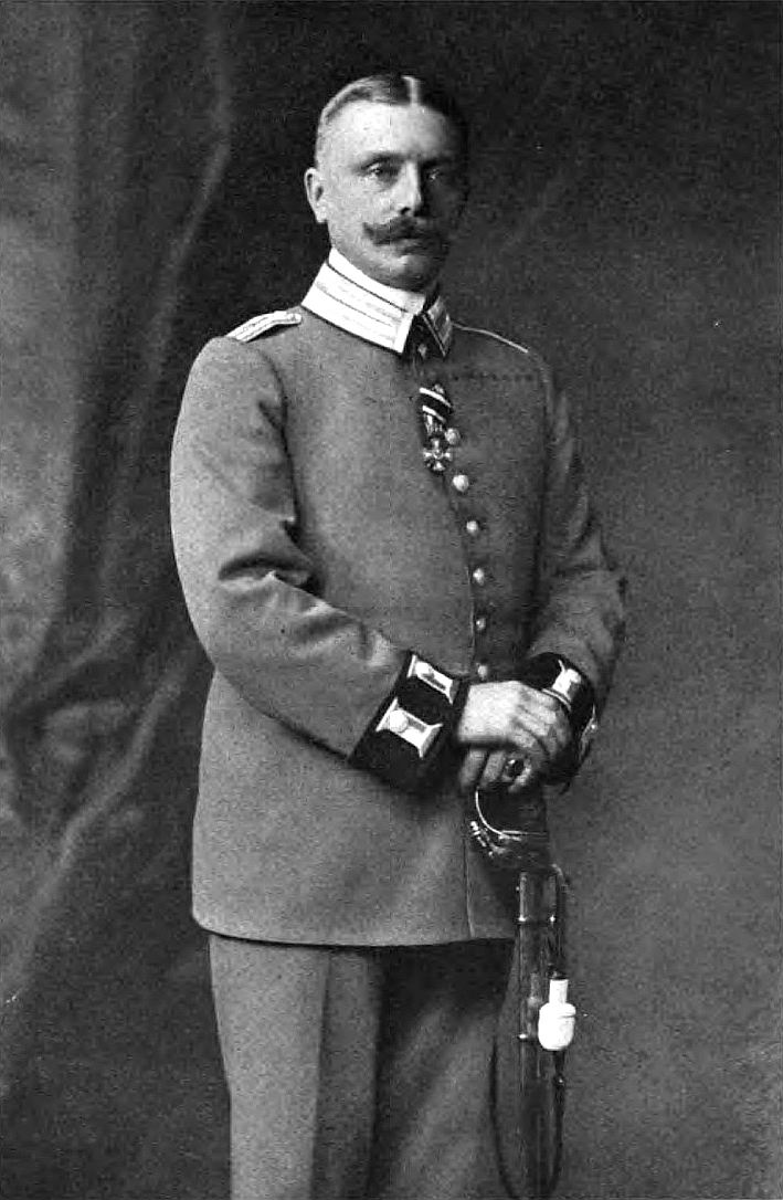 Hans Dominik (1870-1910). Date of shooting unknown.